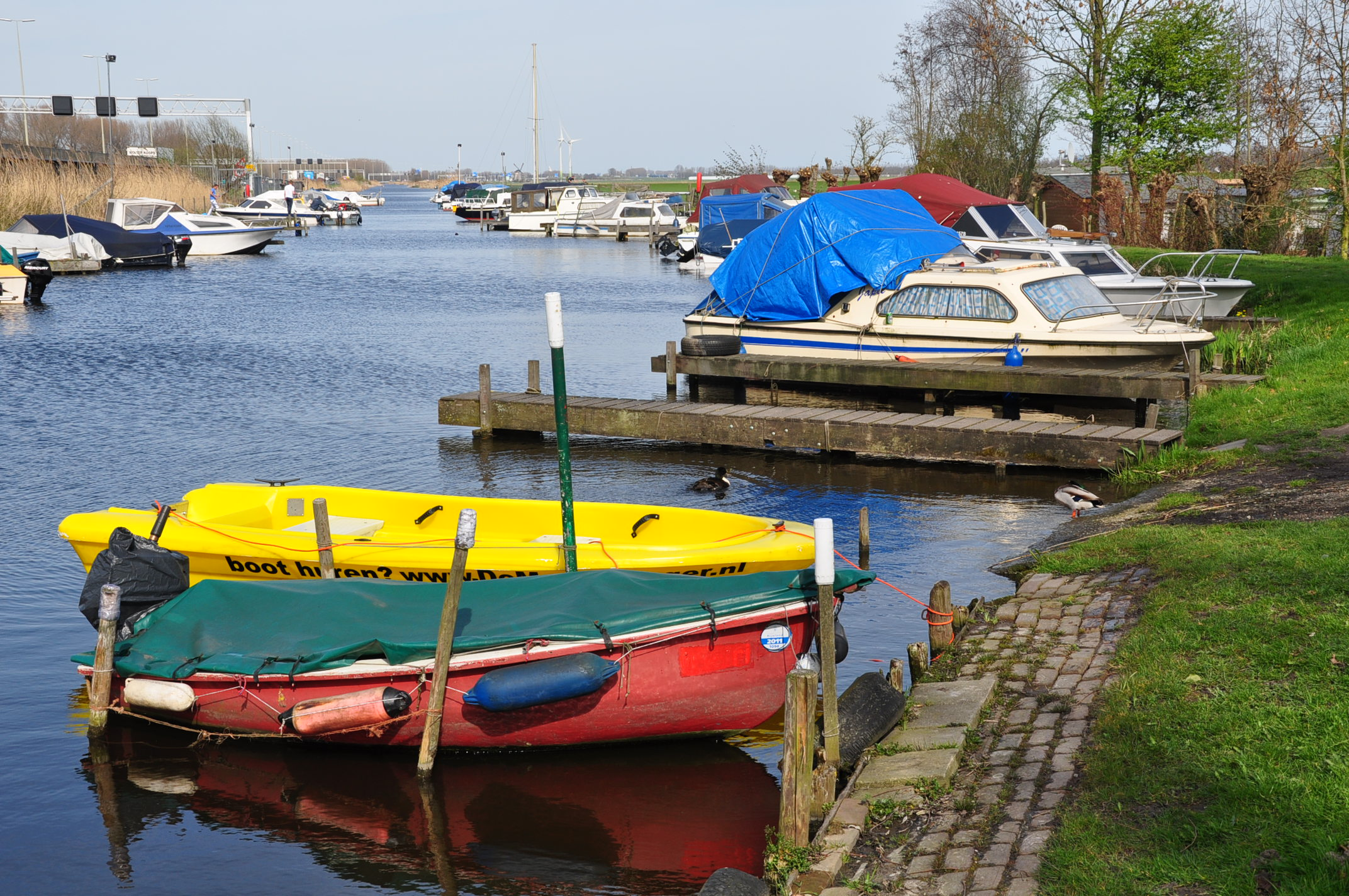 The southern end of the Meerburger Watering (Meerburger canal) with its little harbour/marina "De Merenburger" at Stompwijk (municipality of Leidschendam-Voorburg, Netherlands). This broad ditch forms the boundary between a number of polders in Stompwijk and already exists for at least 400 years. The Meerburger Watering runs directly parallel to Motorway A4 (seen left) for the major part of its length. It terminates into the Old Rhine at Zoeterwoude-Rijndijk.